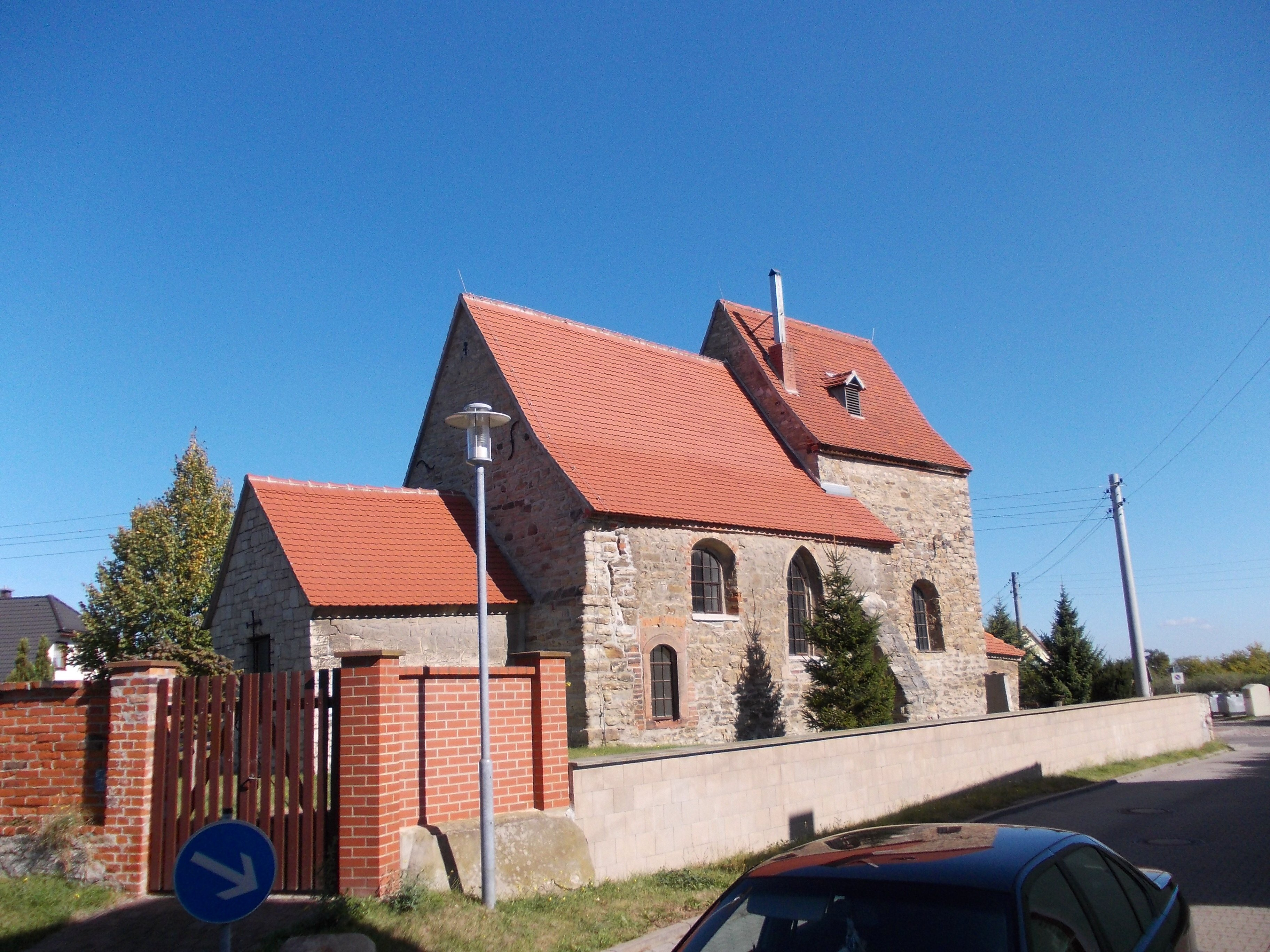 Daspig church (Leuna, district of Saalekreis, Saxony-Anhalt)